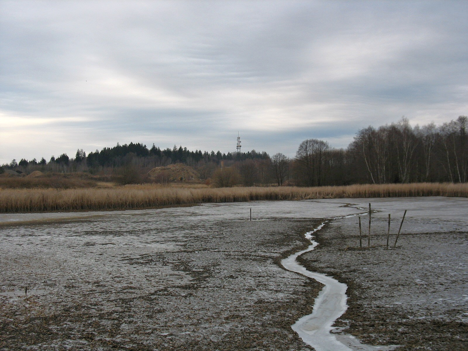 Hill Baba (579 m), The Lišovský práh Mts. (Czech Republic).